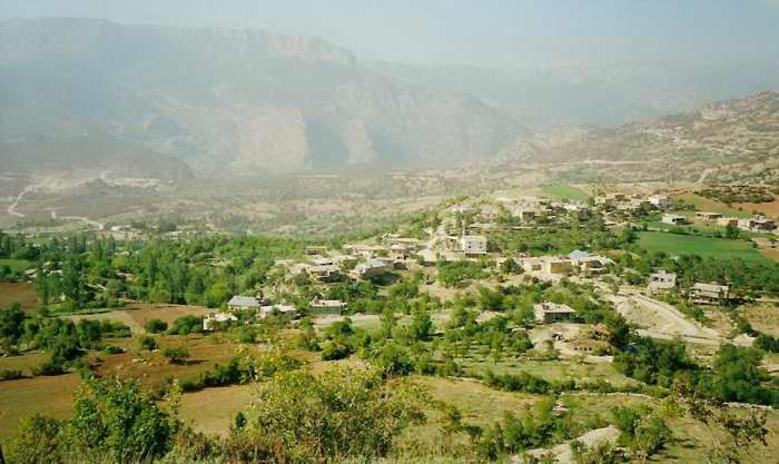 View of Kisla Neighbourhood from Görmeli